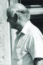 American mathematician Andrew Bruckner at Smolenice in 1991. Cropped version of original photo